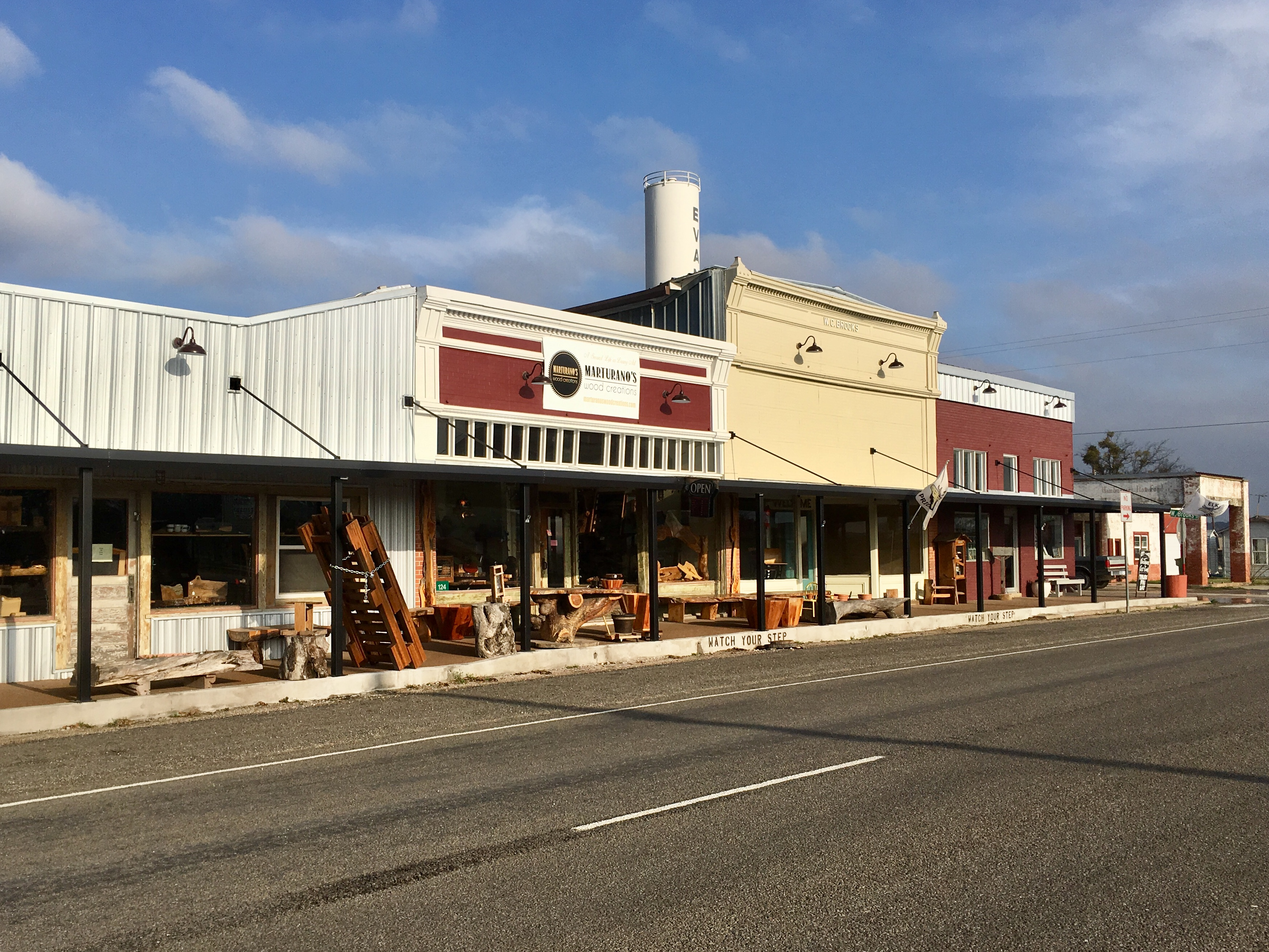 Event, Texas town center.